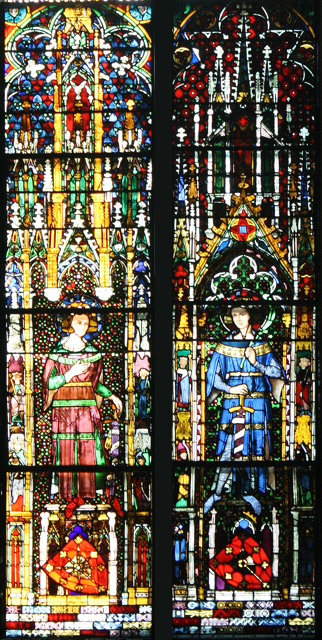 Cologne Cathedral. The St Felix and St Nabor window, c.1330